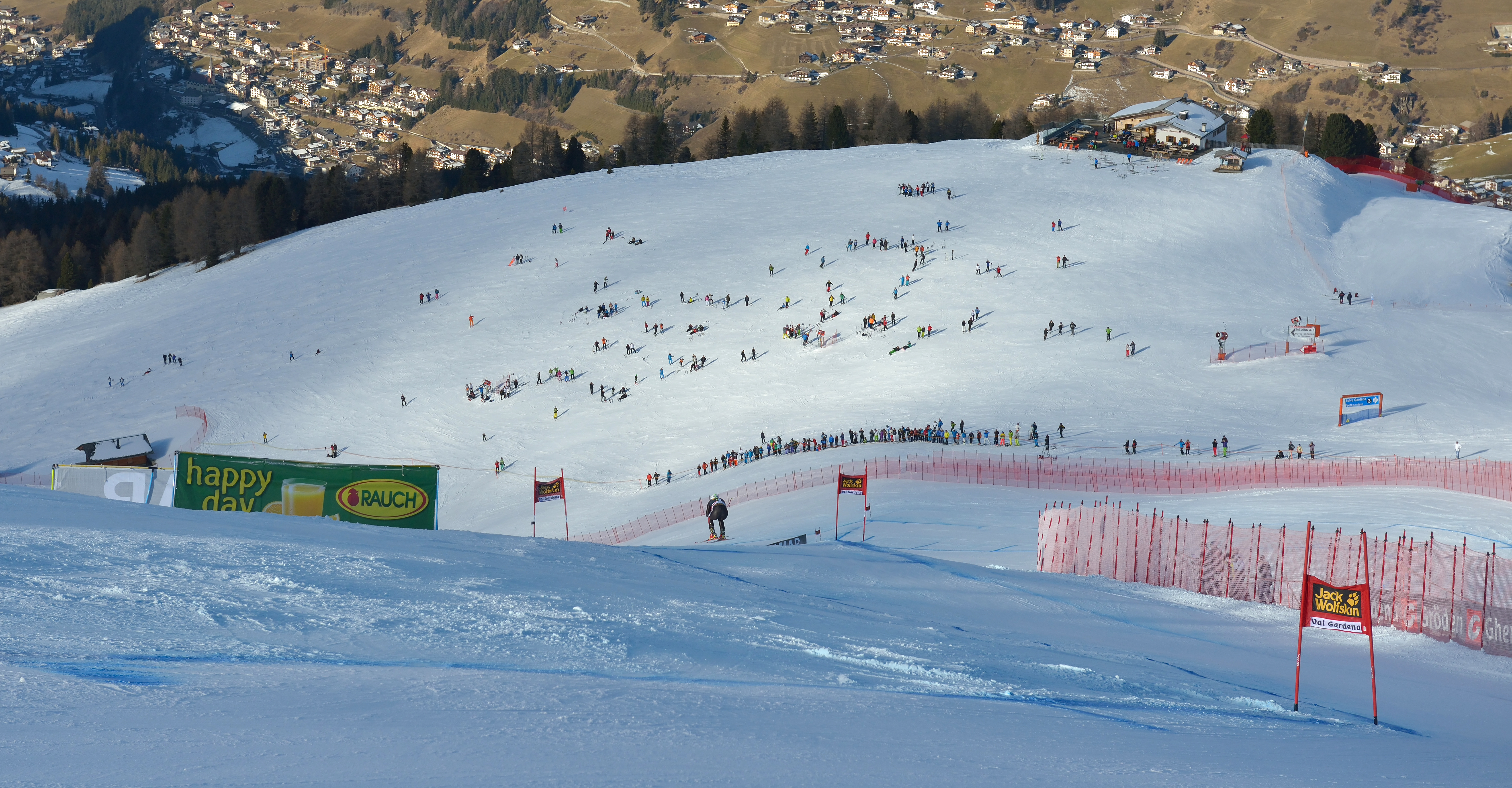 Fis Ski World Cup Val Gardena-Gröden - 46th Saslong Classic in Gröden